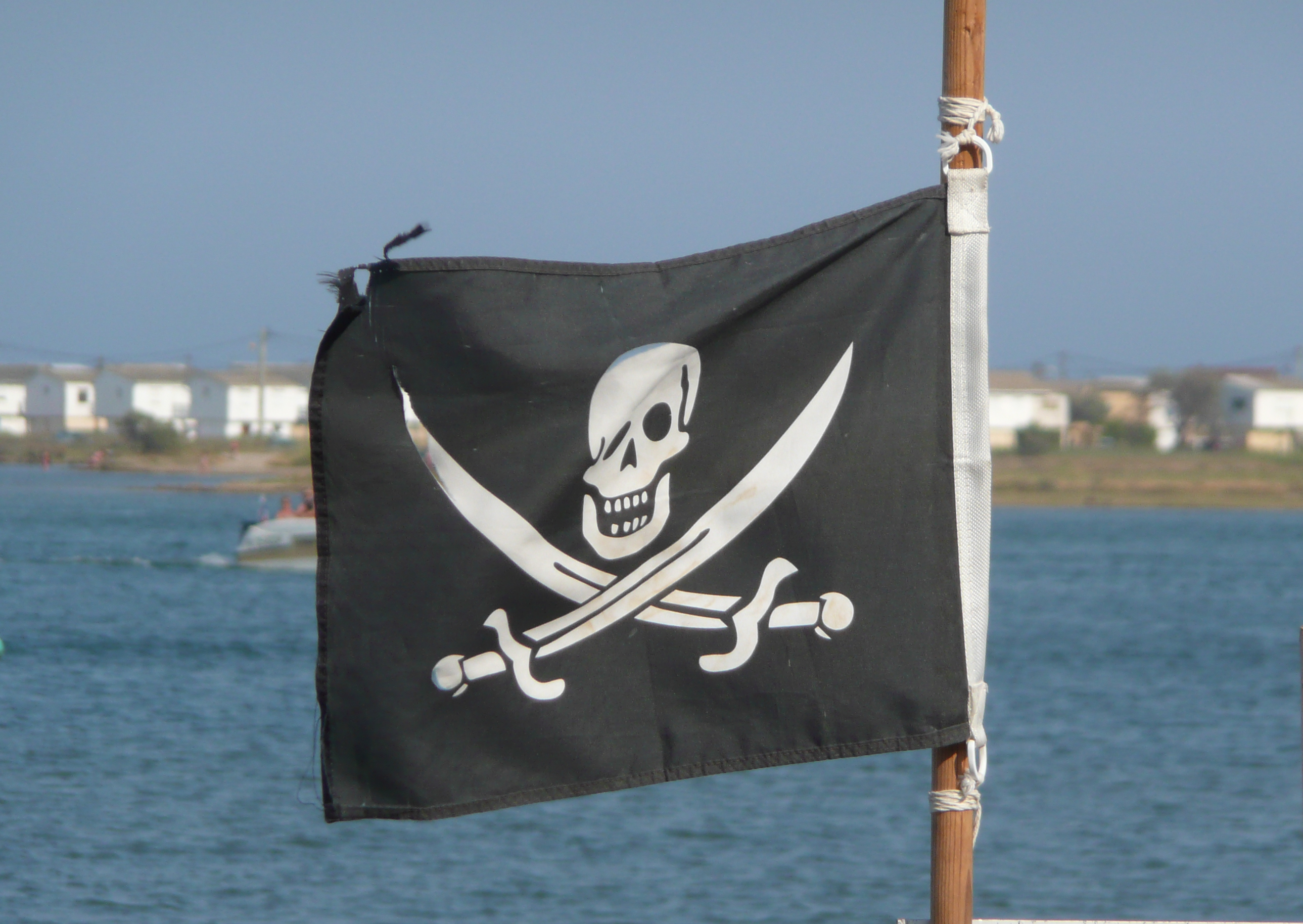 Pirat flag transformed into a flag of a winking pirat because of the wind